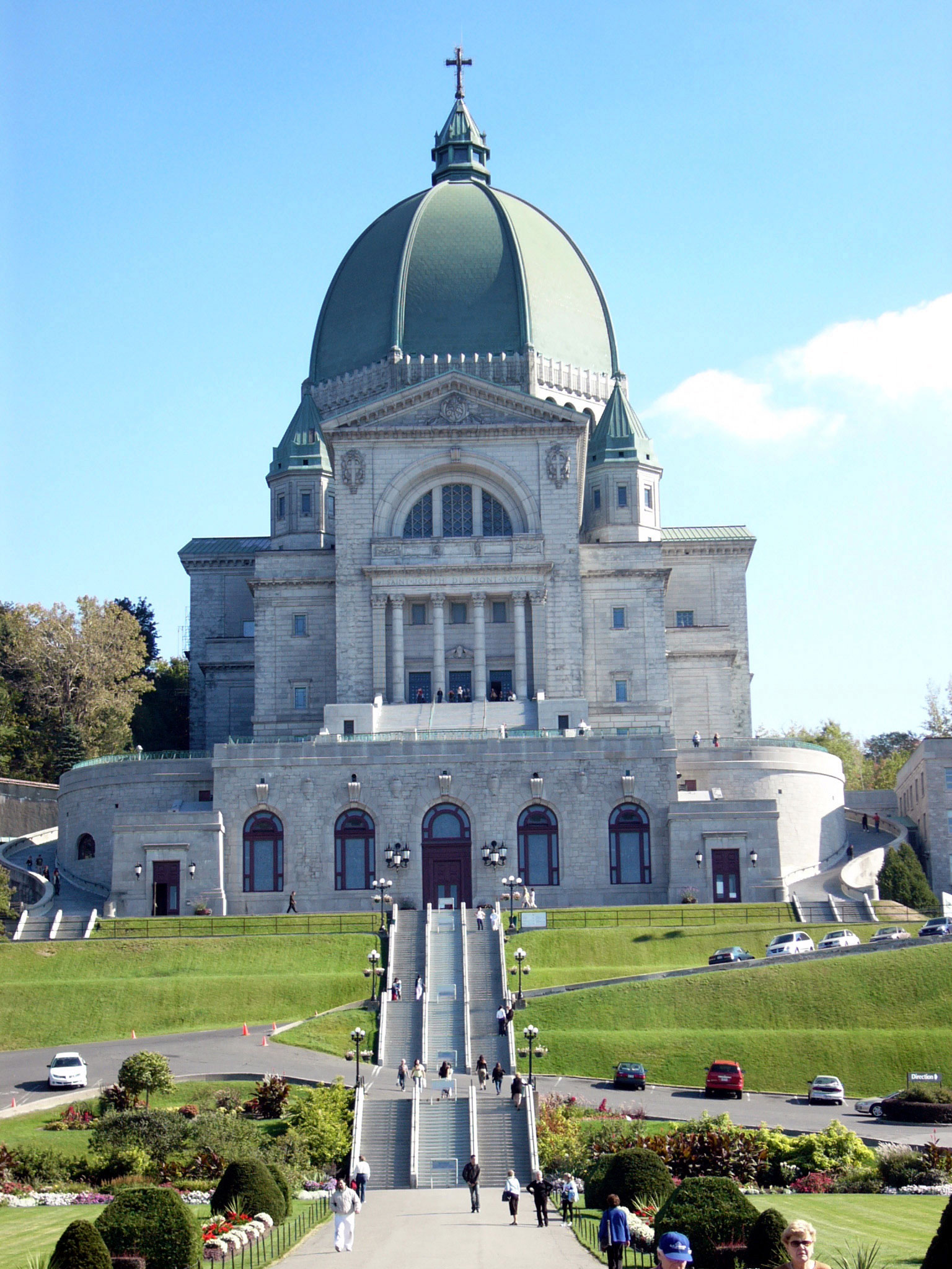 St. Joseph Oratory, Montreal